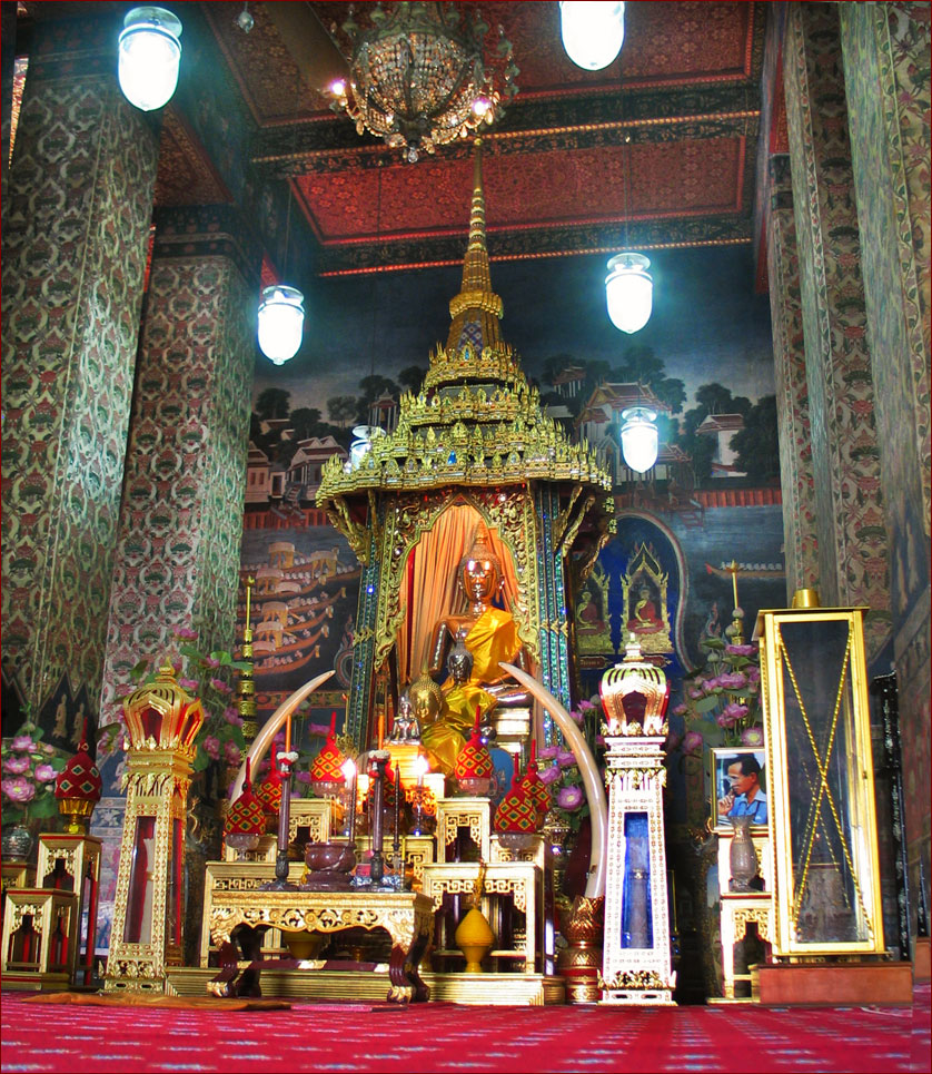 Luang Phor Serm, Buddha image, viharn of Wat Pathum Wanaram, Bangkok, Thailand.